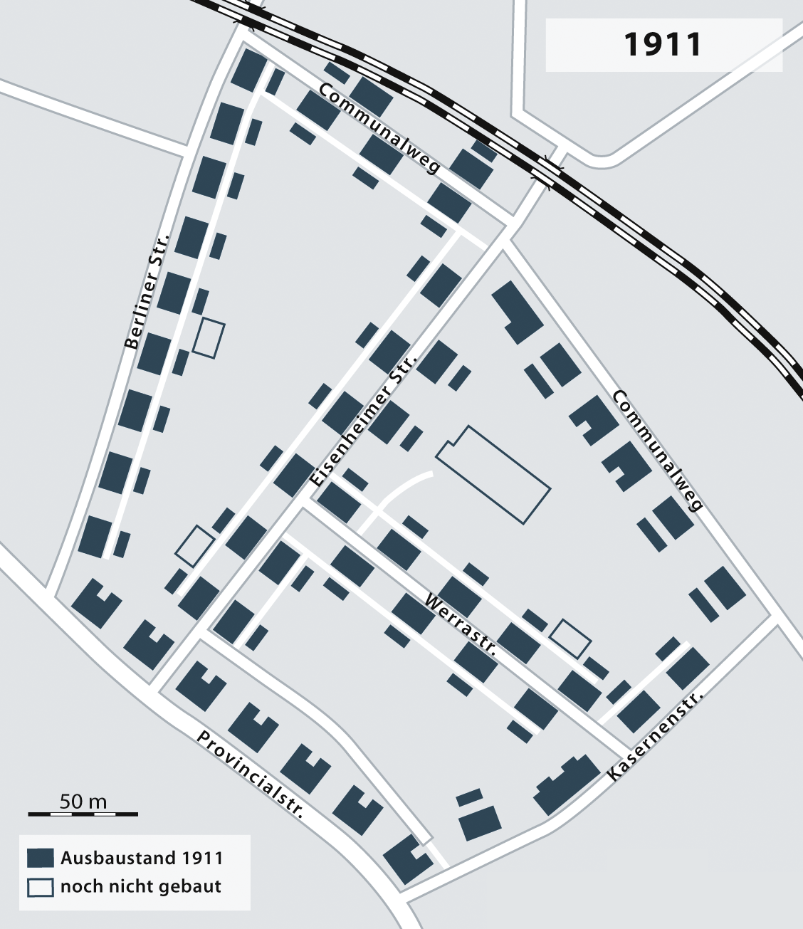 Siedlung Eisenheim (Oberhausen, Germany) in 1911